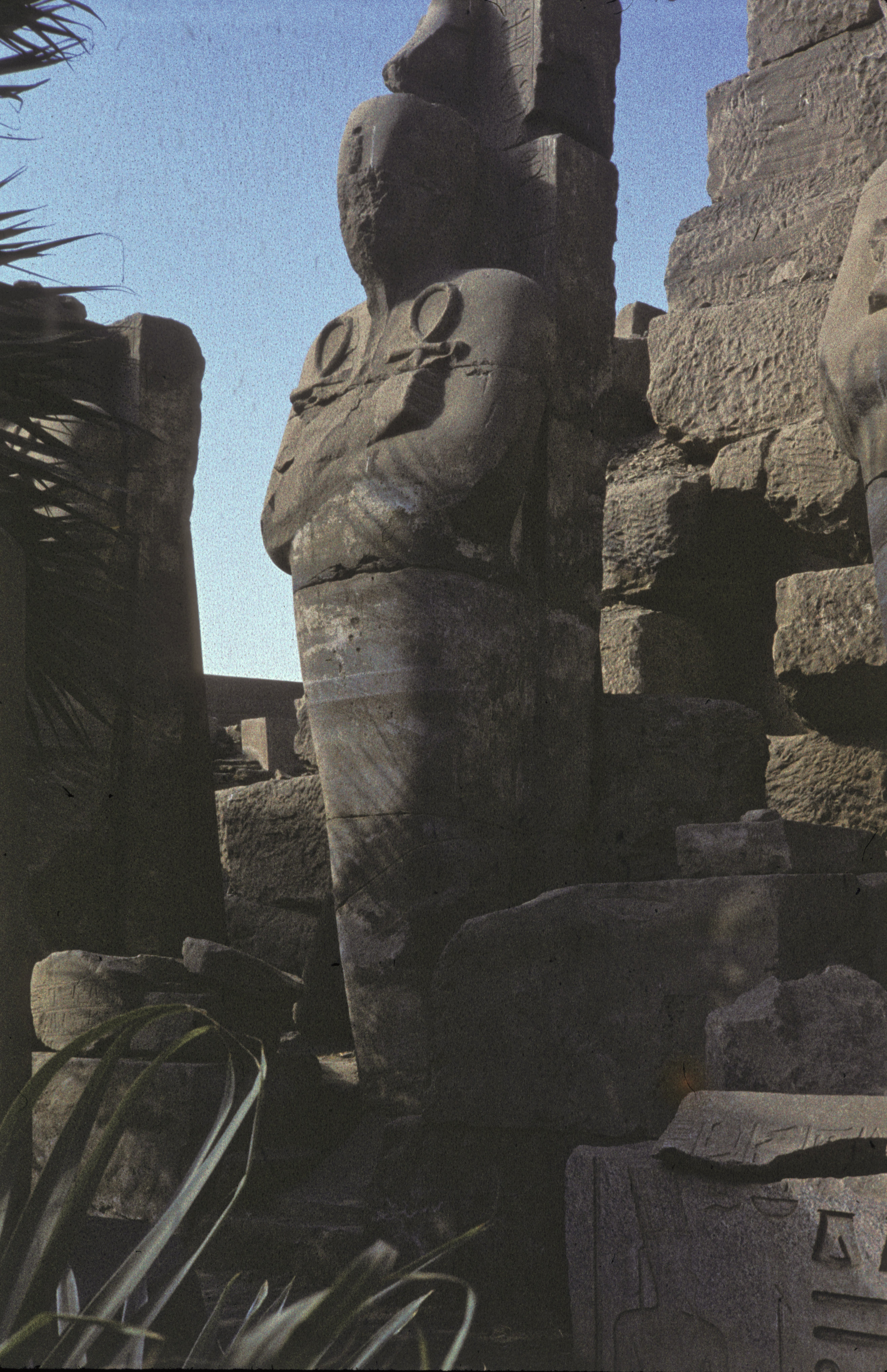 1959 in Egypt, locality unknown